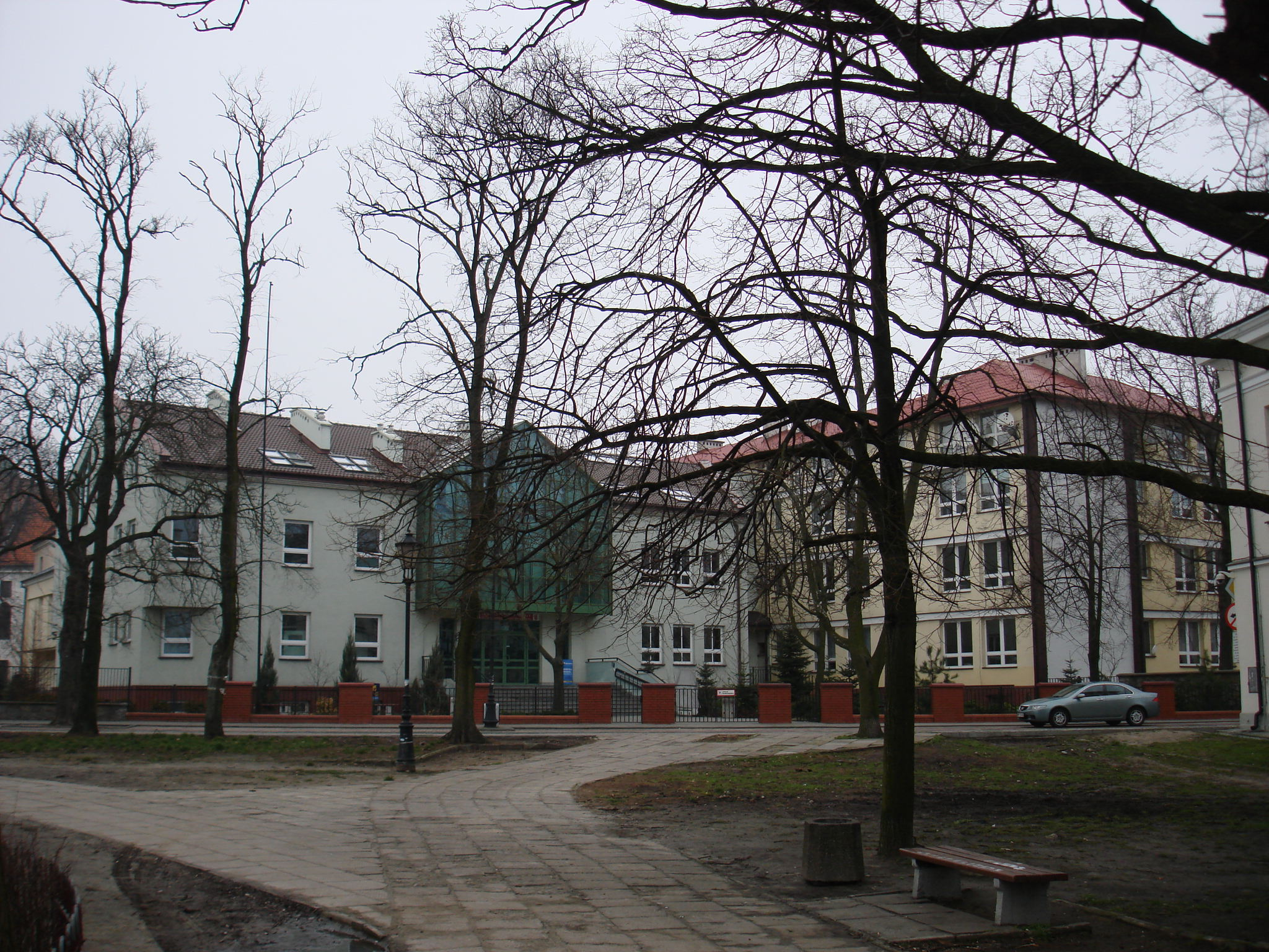 Małachowski's High School in Płock